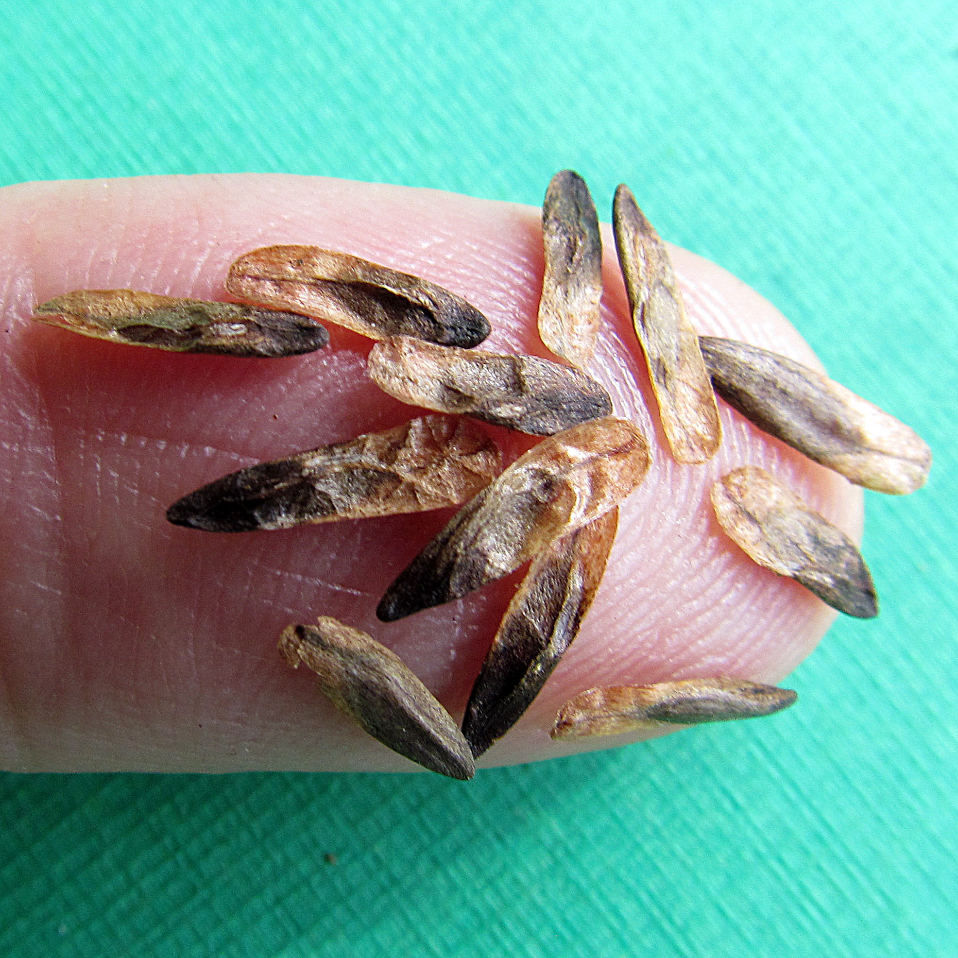 Liquidambar styraciflua seeds